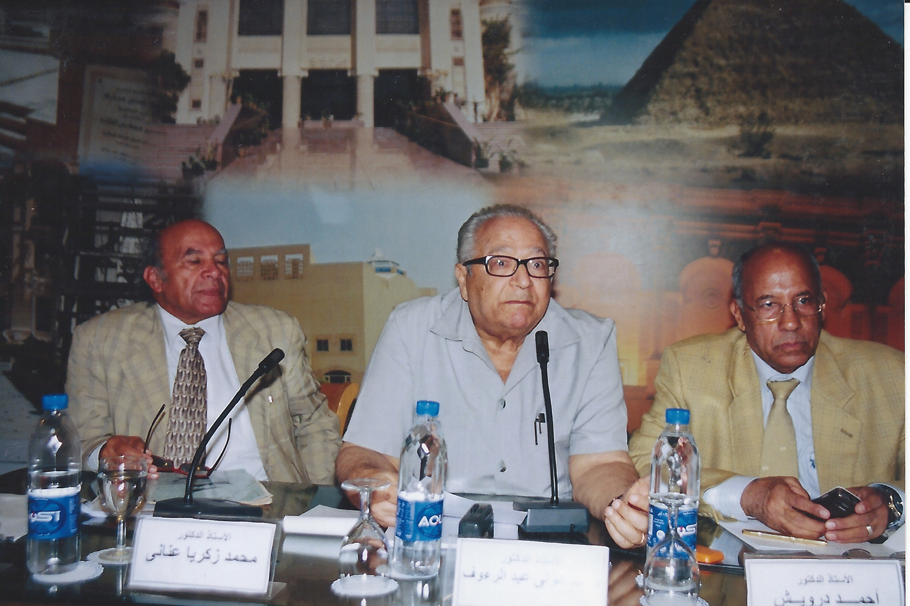 Dr. Awni Abdul Rauf And sits at the right hand of Dr. Ahmed Darwish and his left Dr. Mohamed Zakaria Anani